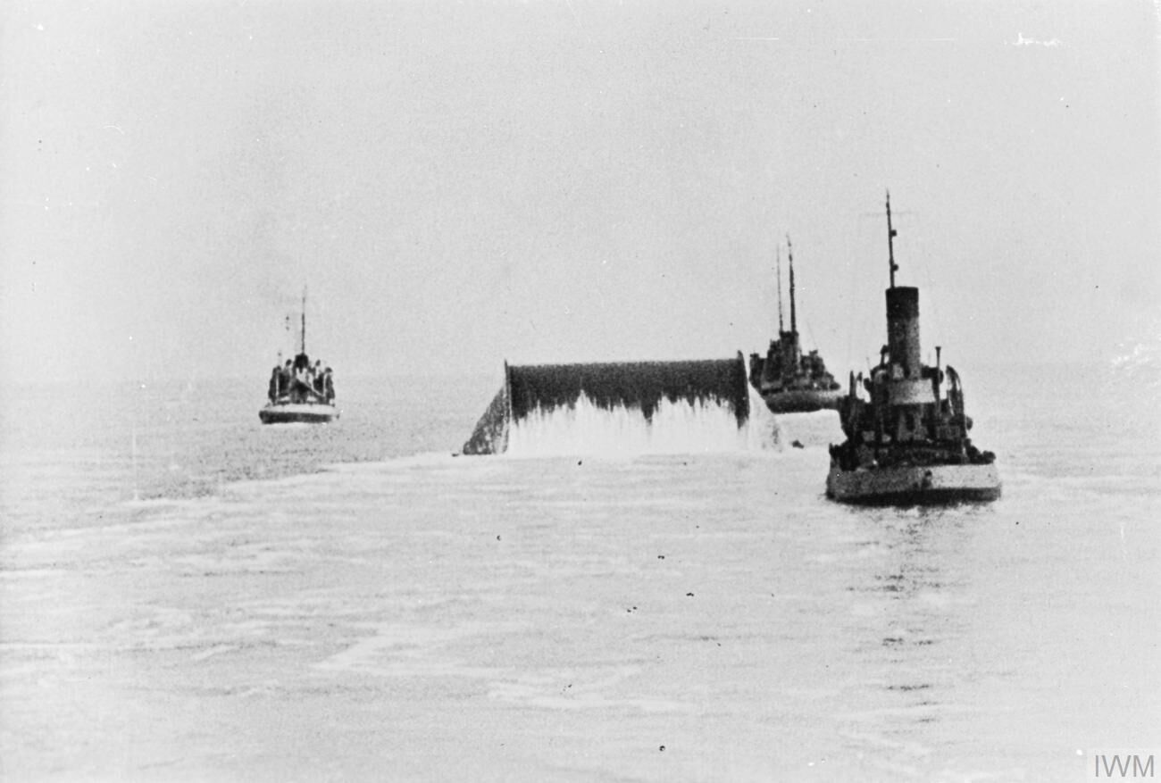 The Battle for Normandy: A 'Conundrum' being towed across the English Channel laying out pipe behind it to form an underwater pipe line from Southampton to Cherbourg which kept the Allied armies supplied with petrol until the Channel ports could be re-activated. Known as Pluto, this was an entirely British conception designed by Captain John Hutchings, Royal Navy.